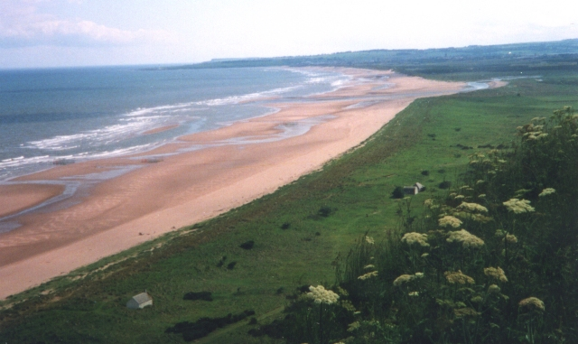 St Cyrus Beach. The sand dunes behind the beach are a Nature Reserve, with a wide variety of flora.